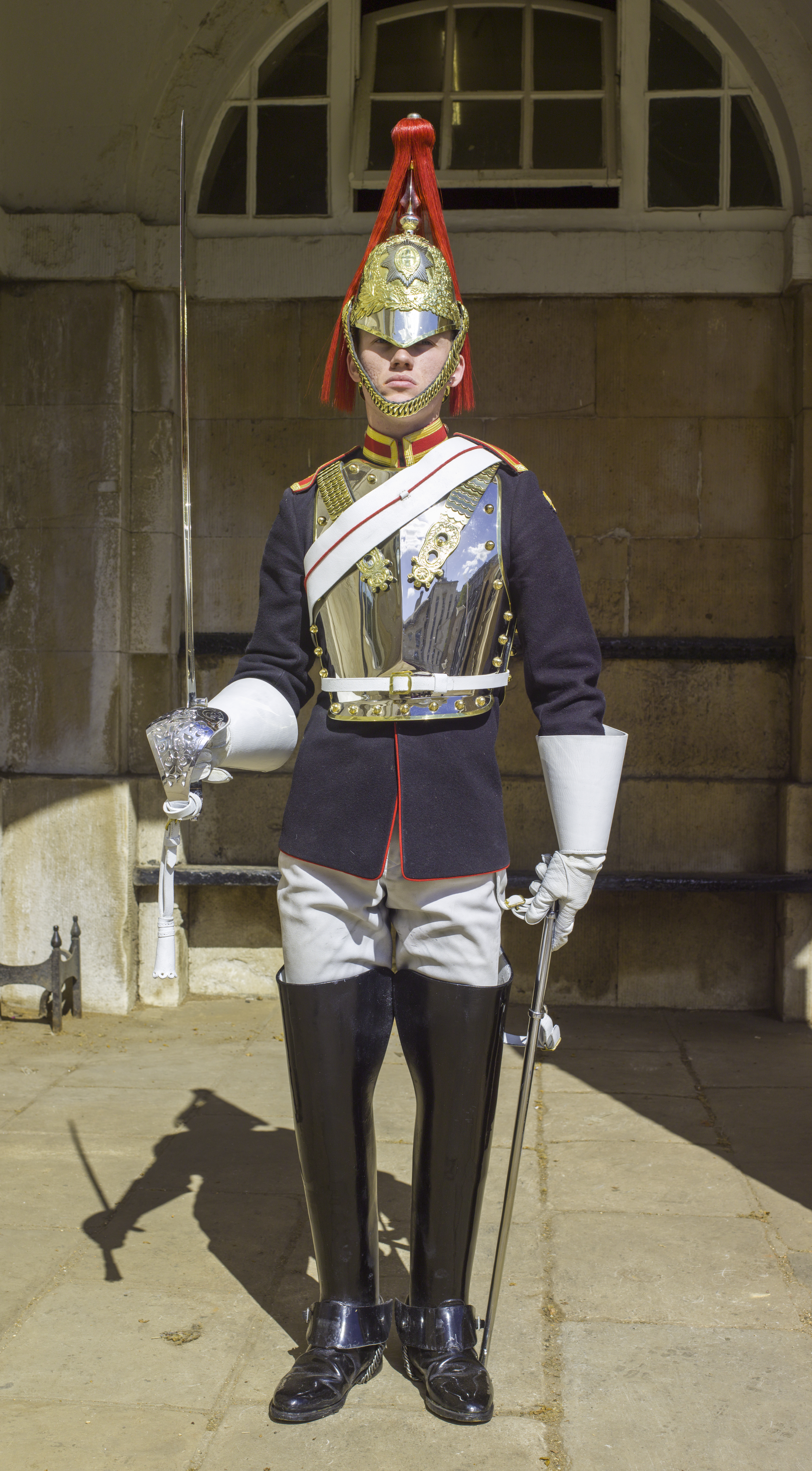 A soldier in the Blues and Royals, part of the Household Cavalry.